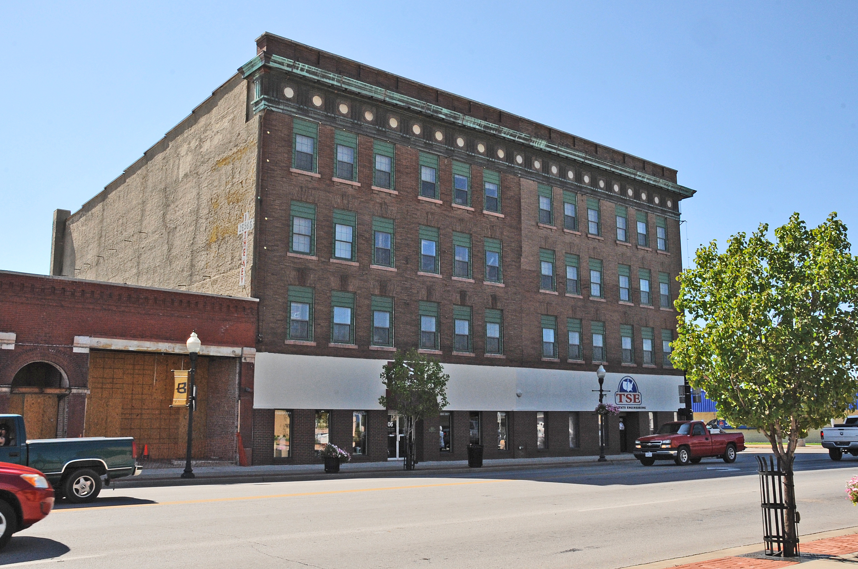 COMMERCIAL BUILDING IN 800 BLOCK OF MAIN STREET; MOST OF THE BUILDINGS DATE FROM THE LATE 19TH CENTURY TO EARLY 20TH CENTURY